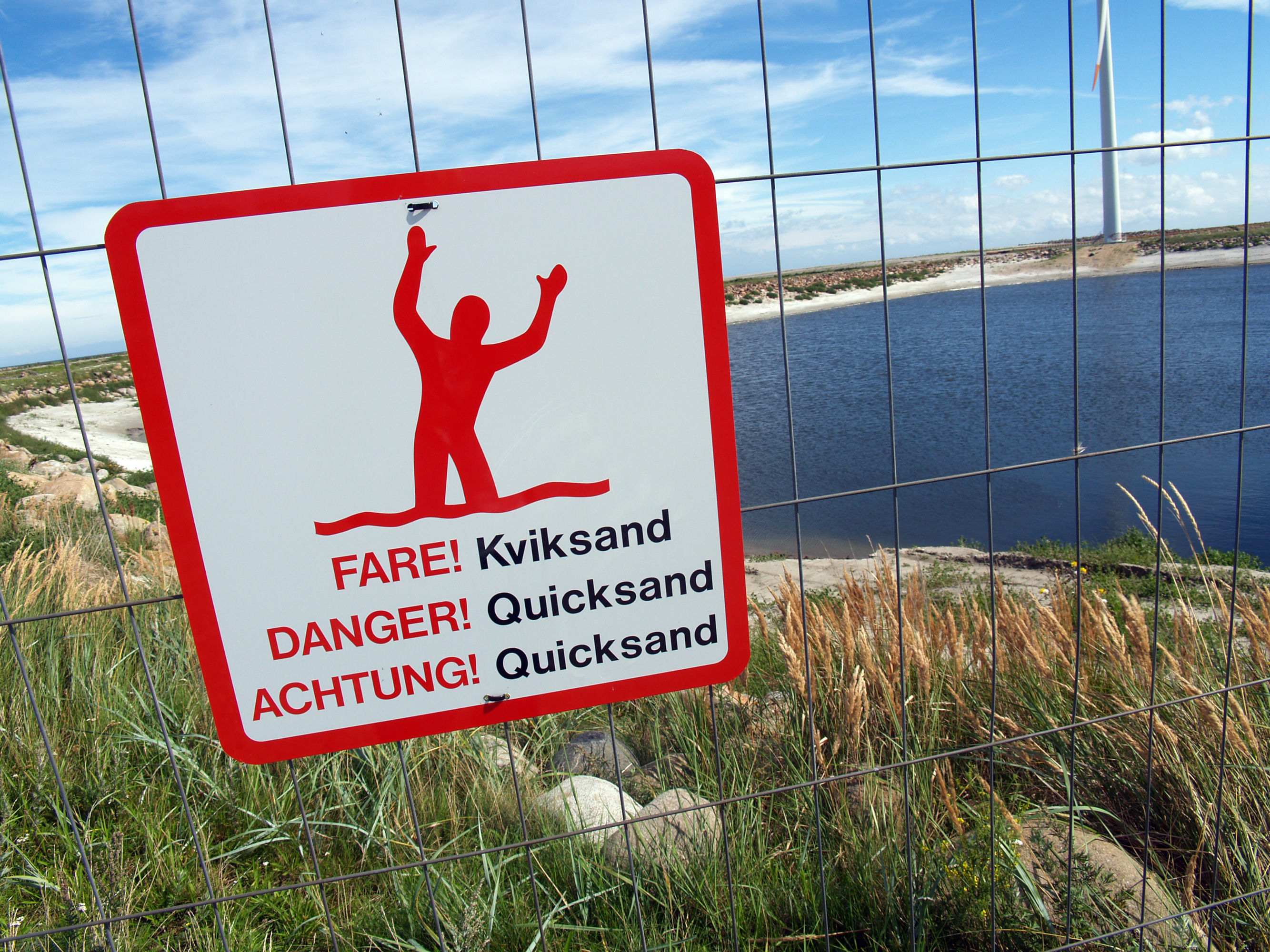 Warning sign for quicksand in Frederikshavn in Denmark.